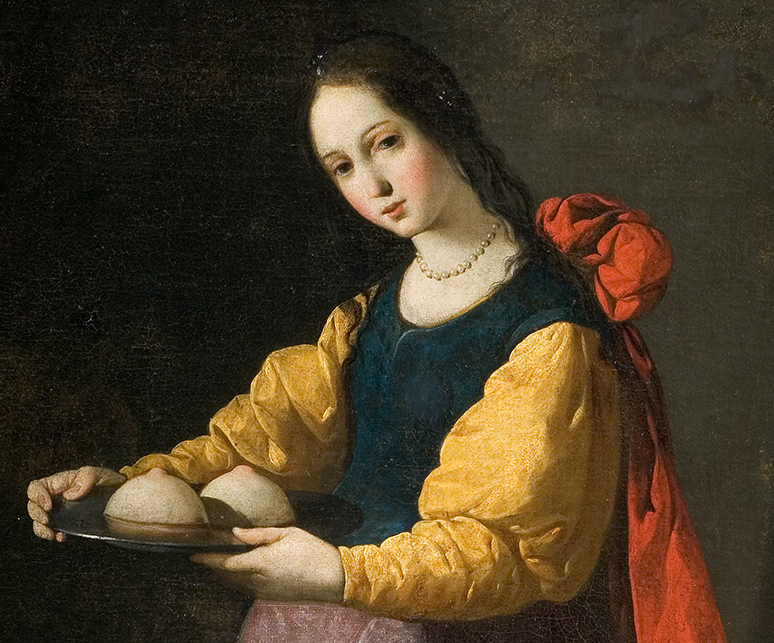 This file has been extracted from another file: Francisco de Zurbarán 031.jpg